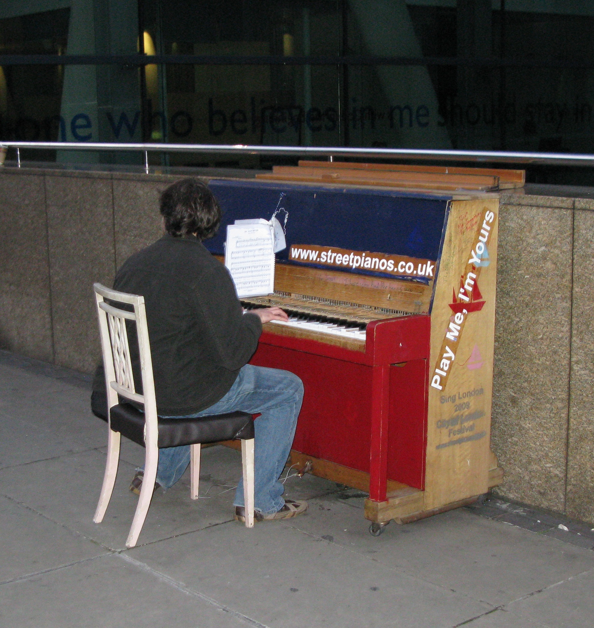 Photo of a Play Me, I'm Yours Street piano near london's Millennium Bridge